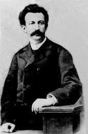 José Manuel Estrada (1842-1894), 1884.